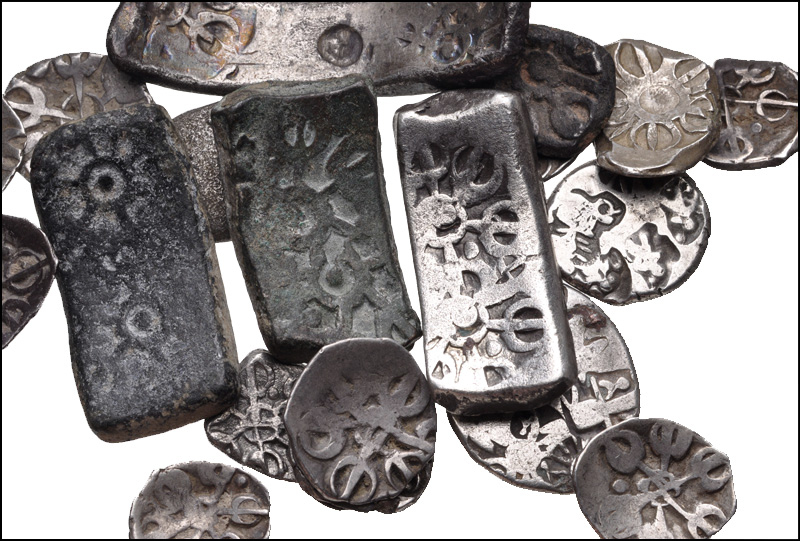 Mix of short punch-marked bent bars, long ones, Gandharan coins and Mauryan punch-marked coins